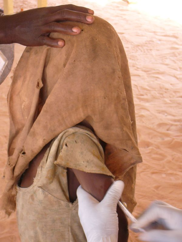 Child in refugee camp in Chad being vaccinated